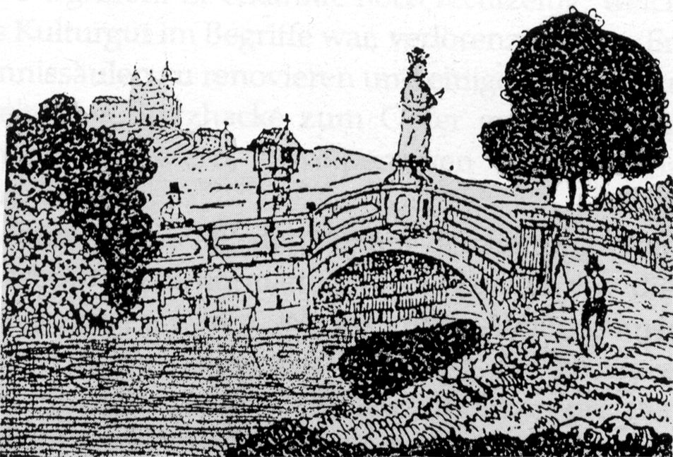 Ignaz Preisinger: "Maria Plain", ca. 1850; architectonical items shown: pilgrimage church of Maria Plain (today within the limits of the municipality of Bergheim (state of Salzburg, Austria), one out of a series of 15 wayside shrines, and Plain bridge (today within the city limits of Salzburg) with a 1733 built statue of Saint John of Nepomuk on top of one of the bridge's parapets.